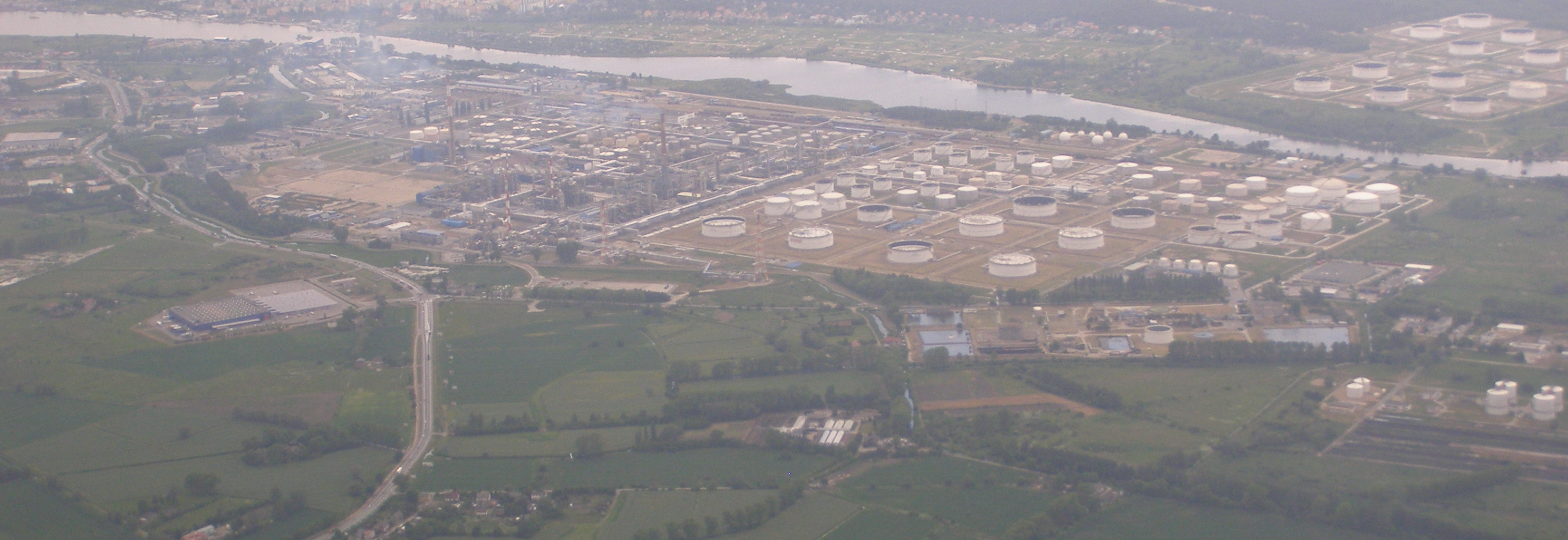 Gdańsk - Lotos oil refinery